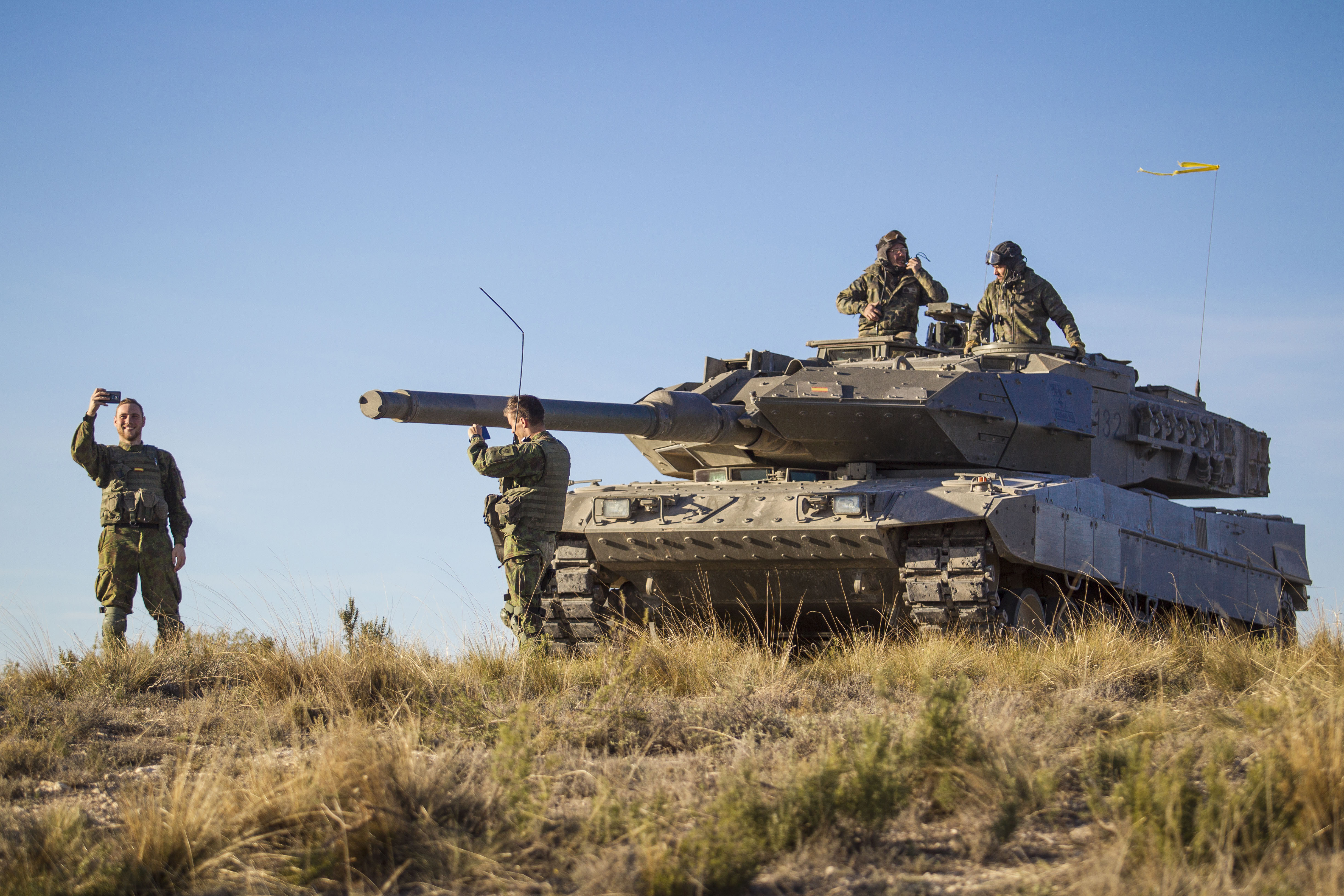 Baltic battalion in a defence battle with the spanish tanks during Trident Juncture. NATO photo by Siim Teder